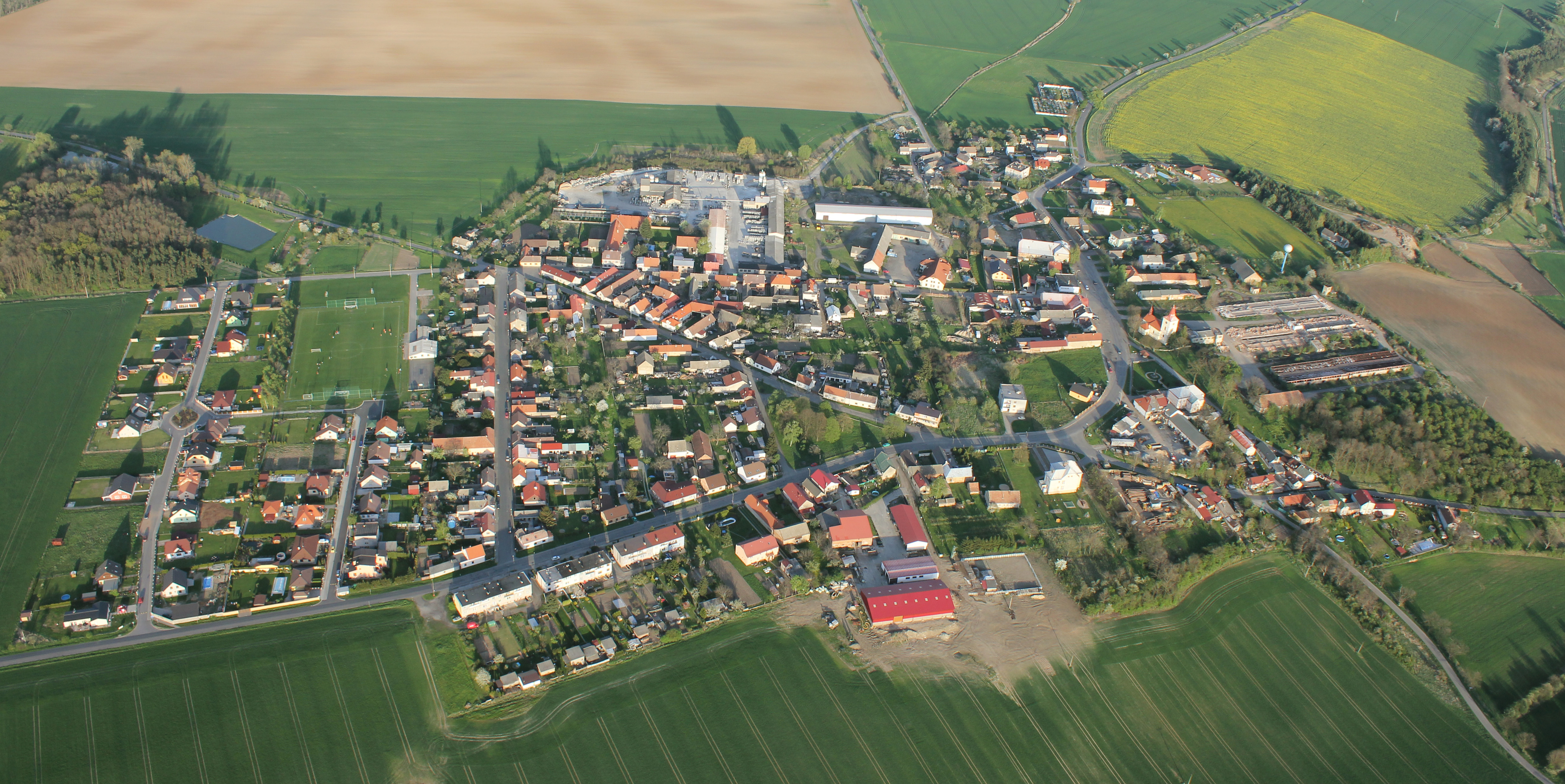 aerial photo